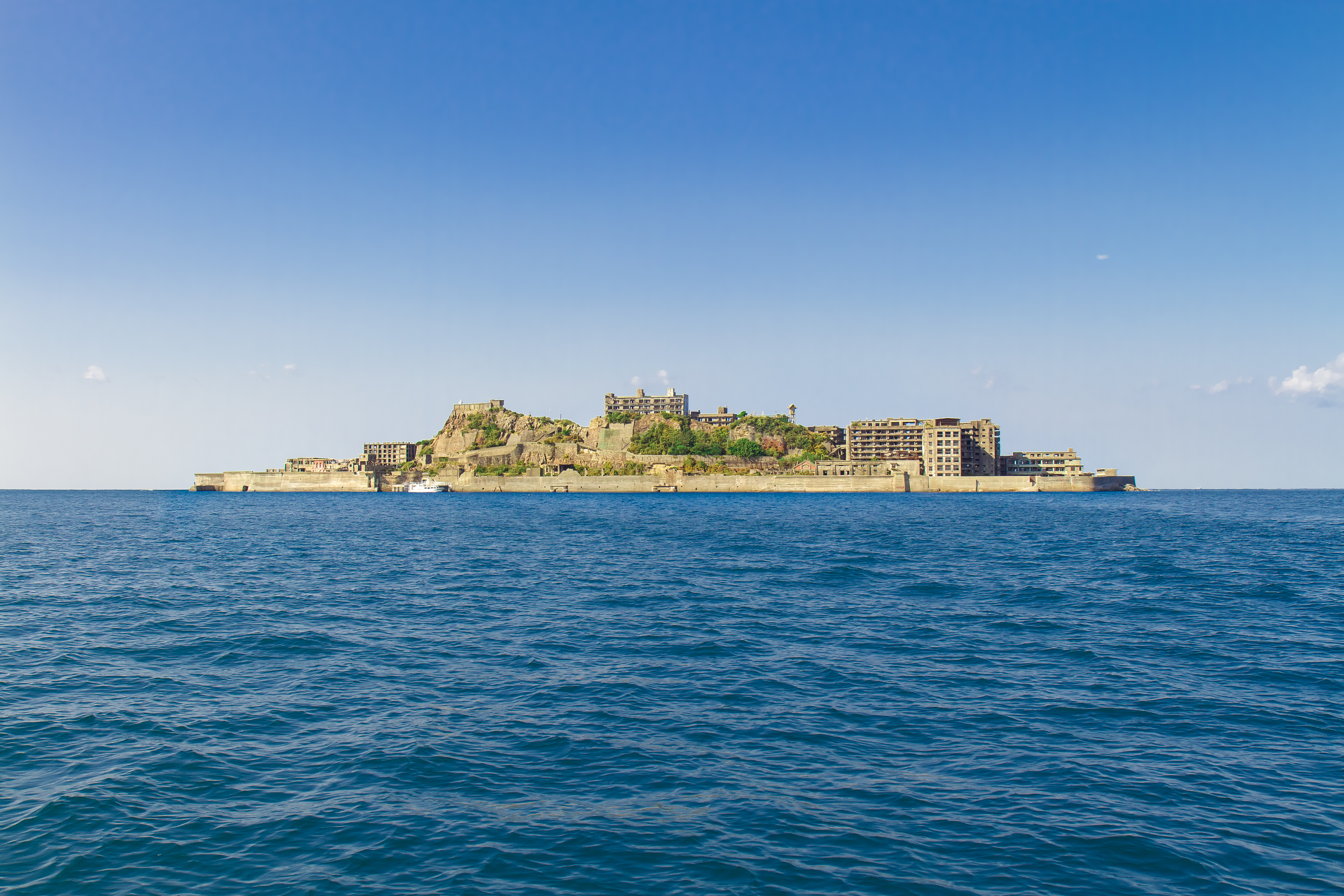 View of Hashima from the sea.